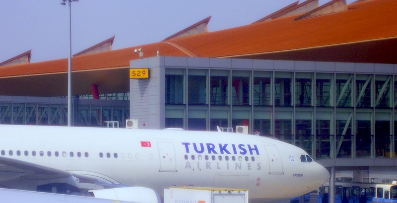 Turkish Airlines Airbus A330-200 "Kayseri" with Star Alliance logo, at PEK